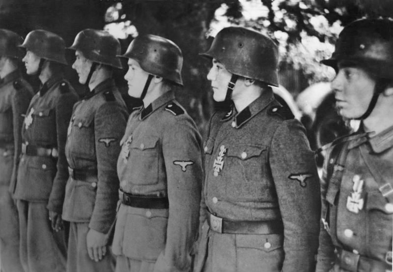 German central picture service World War II 1939-1945 Panzergrenadiers of the SS-Armored Division "Hitlerjugend" lined up to be awarded with the “Iron Cross” July 1944 (Scherl Picture Service).